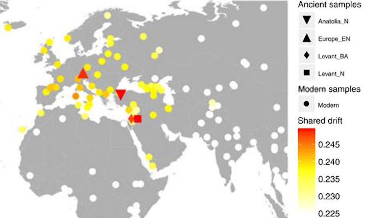 Shared drift and mixture analysis of ancient Egyptian mummies with other ancient and modern and populations